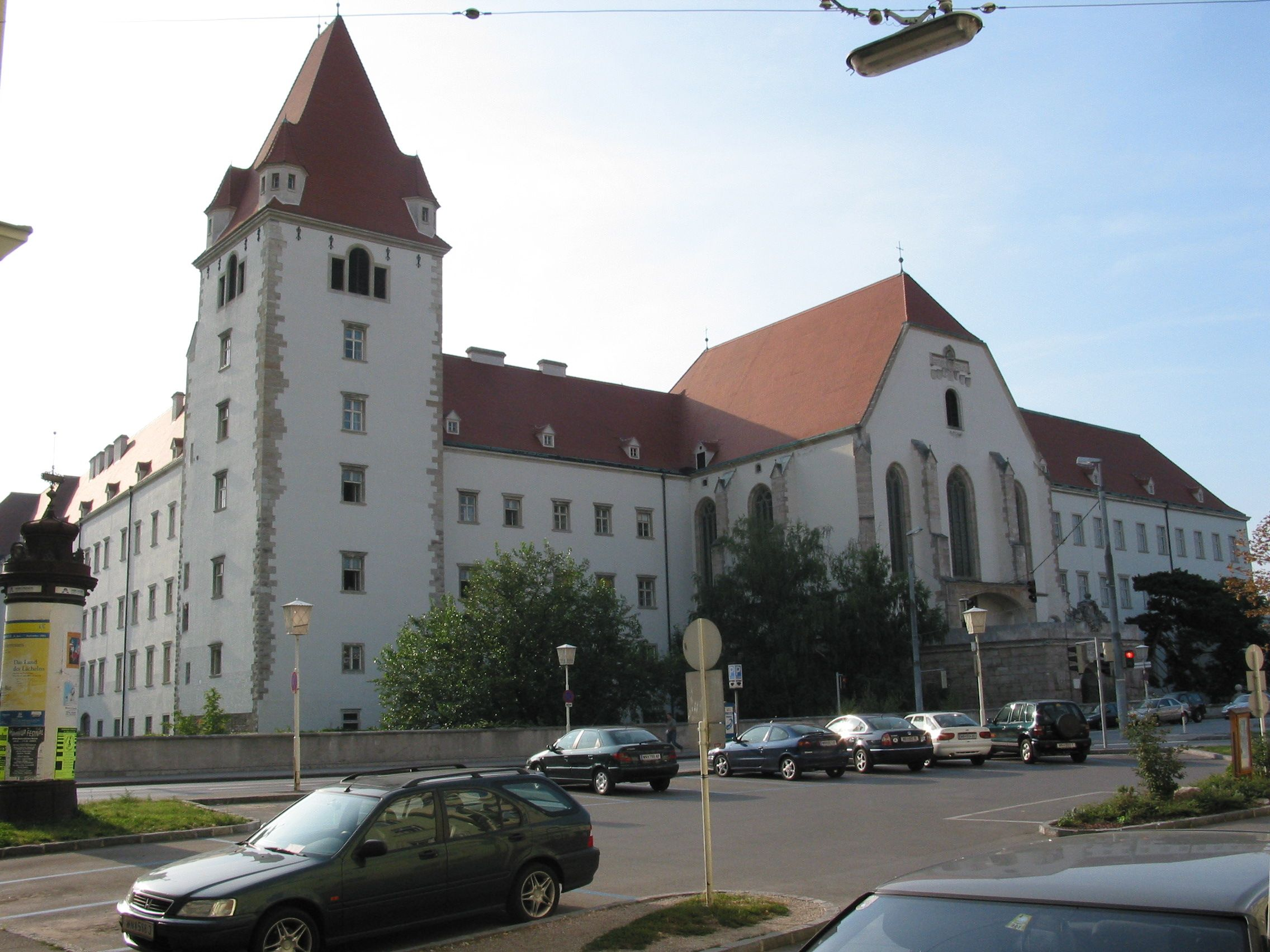 Castle of Wiener Neustadt, 2003-08-22 selfmade photo